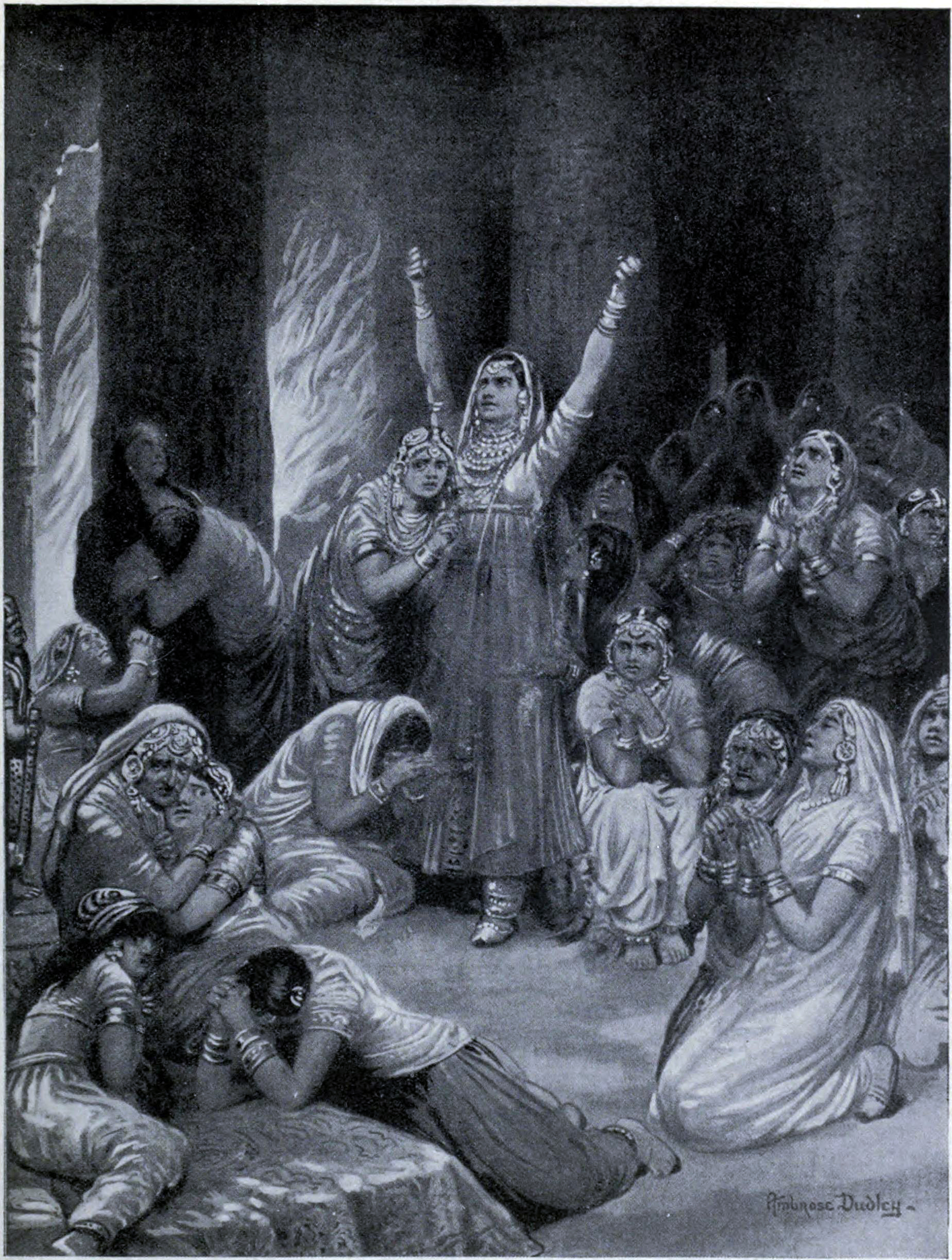 The Rajput ceremony of Jauhar (holocaust), 1567. From Credit: The Rajput ceremony of Jauhar (holocaust), 1567, illustration from 'Hutchinsons History of the Nations', c.1910 (litho), Dudley, Ambrose (fl. 1920s) / Private Collection / The Stapleton Collection / The Bridgeman Art Library STC 357931 Image number: The Rajput ceremony of Jauhar (holocaust), 1567, illustration from 'Hutchinsons History of the Nations', c.1910 (litho) Title: Dudley, Ambrose (fl. 1920s) Primary creator: British Nationality: Private Collection Location: The Stapleton Collection Credit: lithograph Medium: Jauhar is a Rajput tradition when the defenders of a fort realise there is no escape from death and all the womenfolk self-immolate on a pyre; afterwards the men fight unto death; this happened in 1567 when the Mughal Emperor Akbar was beseiging the fort of Chittor; Description: 20th (C20th) Date: Asia Historical Events 1500 -1699 Categories: Vertical